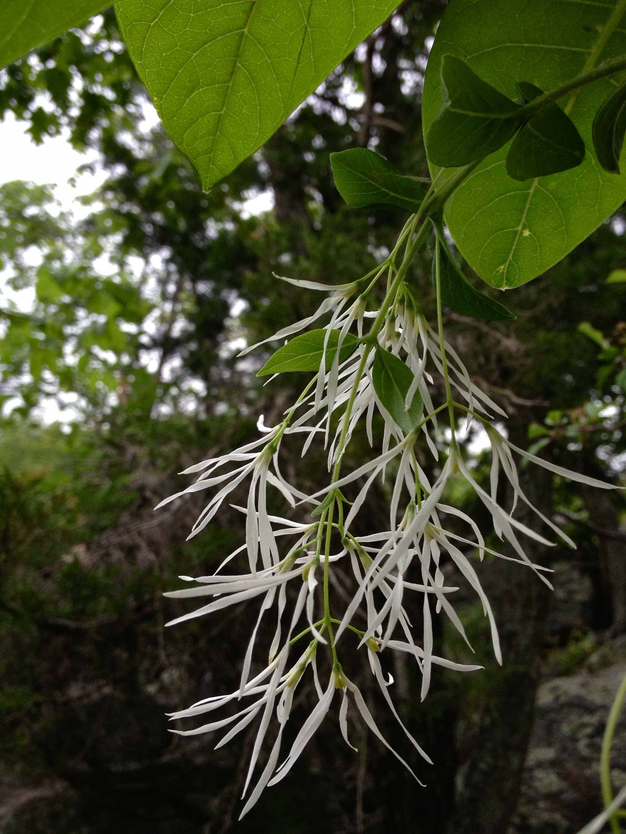 Photo of Chionanthus virginicus in flower. This is a native plant growing wild in Great Falls Park, in Fairfax county Virginia, USA. This species is a member of the Oleaceae family.